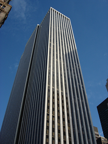 General Motors Building, seen from Central Park South. See File:Sherry Netherland Hotel jeh.JPG for a view from inside Central Park with Sherry Netherland Hotel.